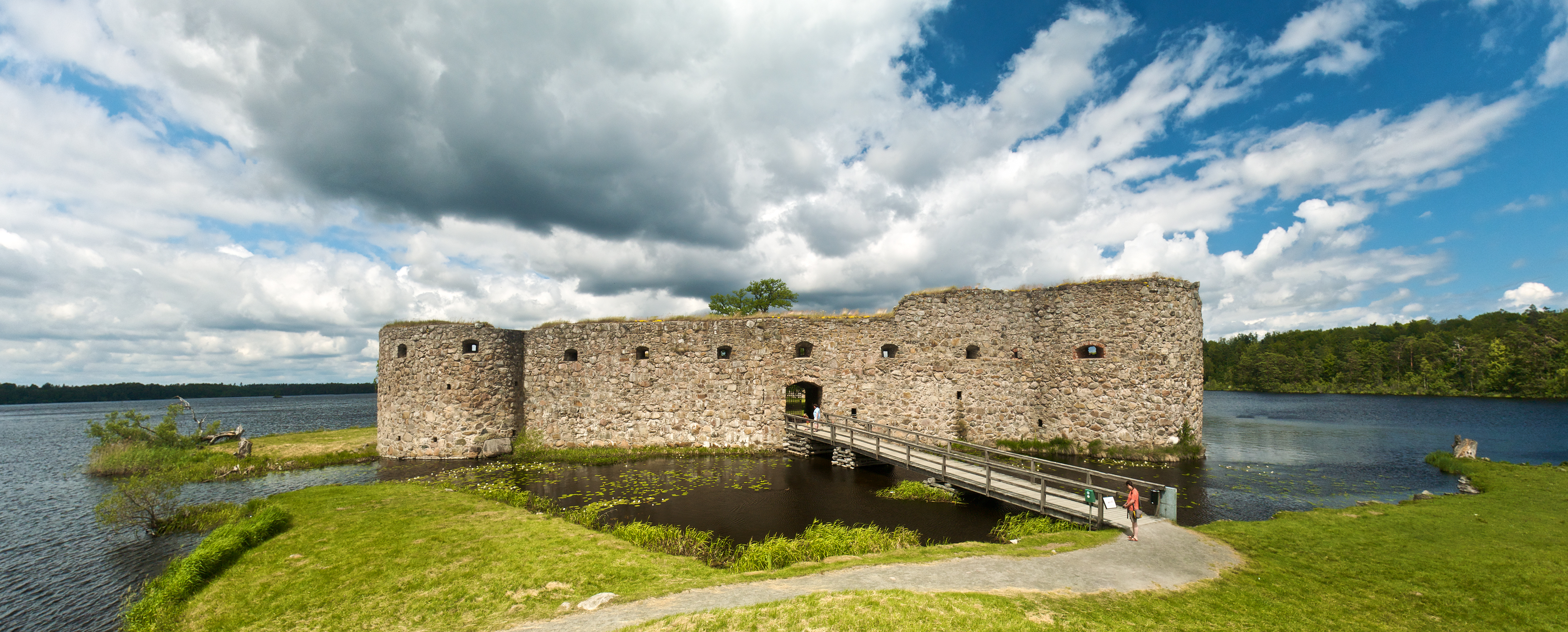 Ruins of Kronoberg Castle, Växjö, Småland, Sweden.